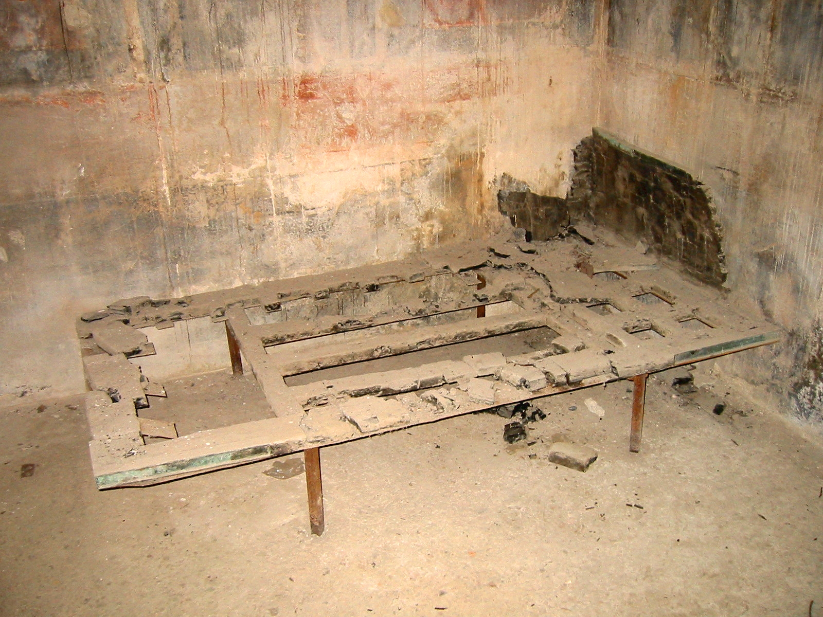 House of the wooden partition (#8) in ancient Herculaneum in Italy. Carbonized bed.